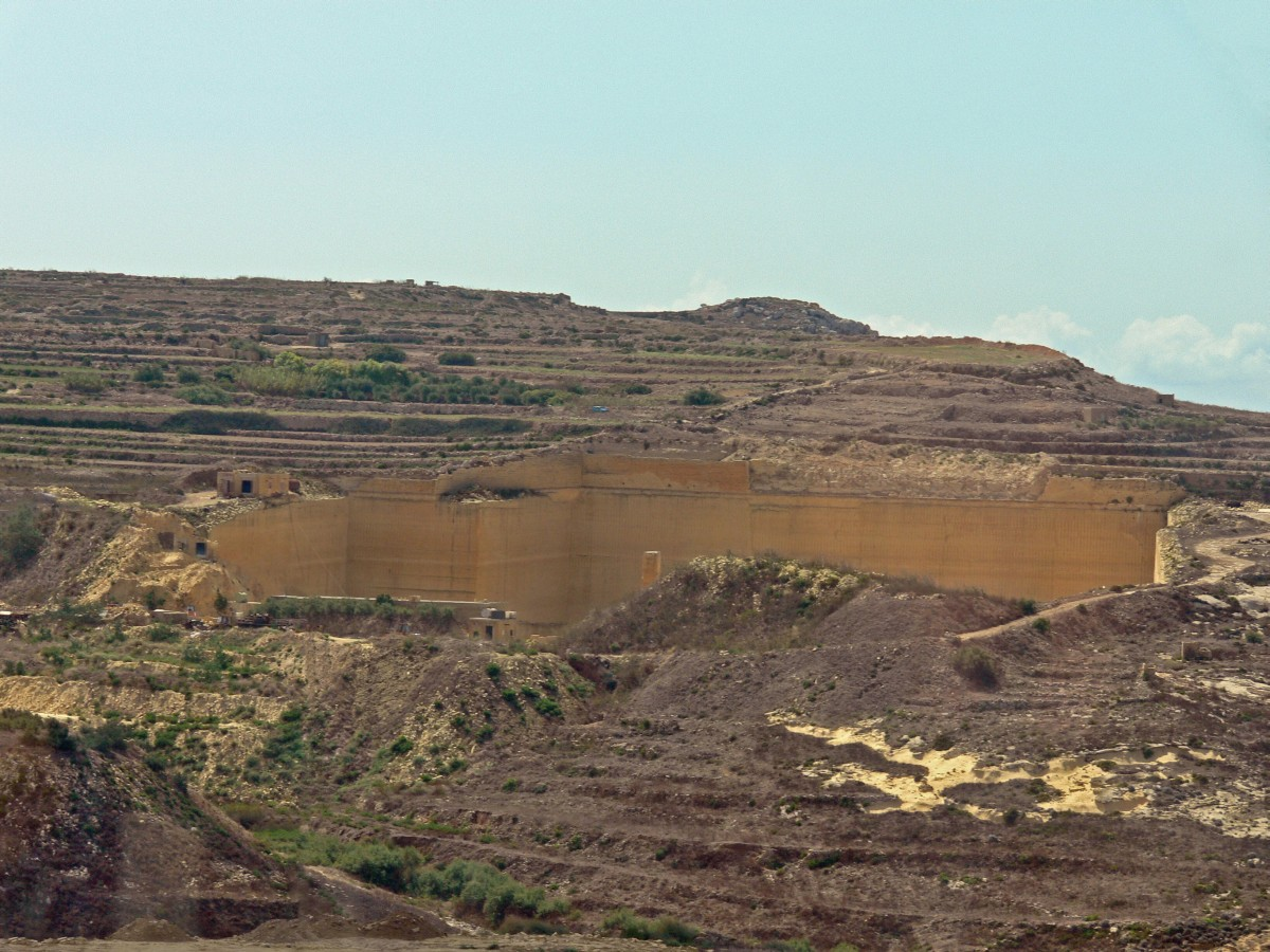 Limestone quarry near Dwejra, Gozo